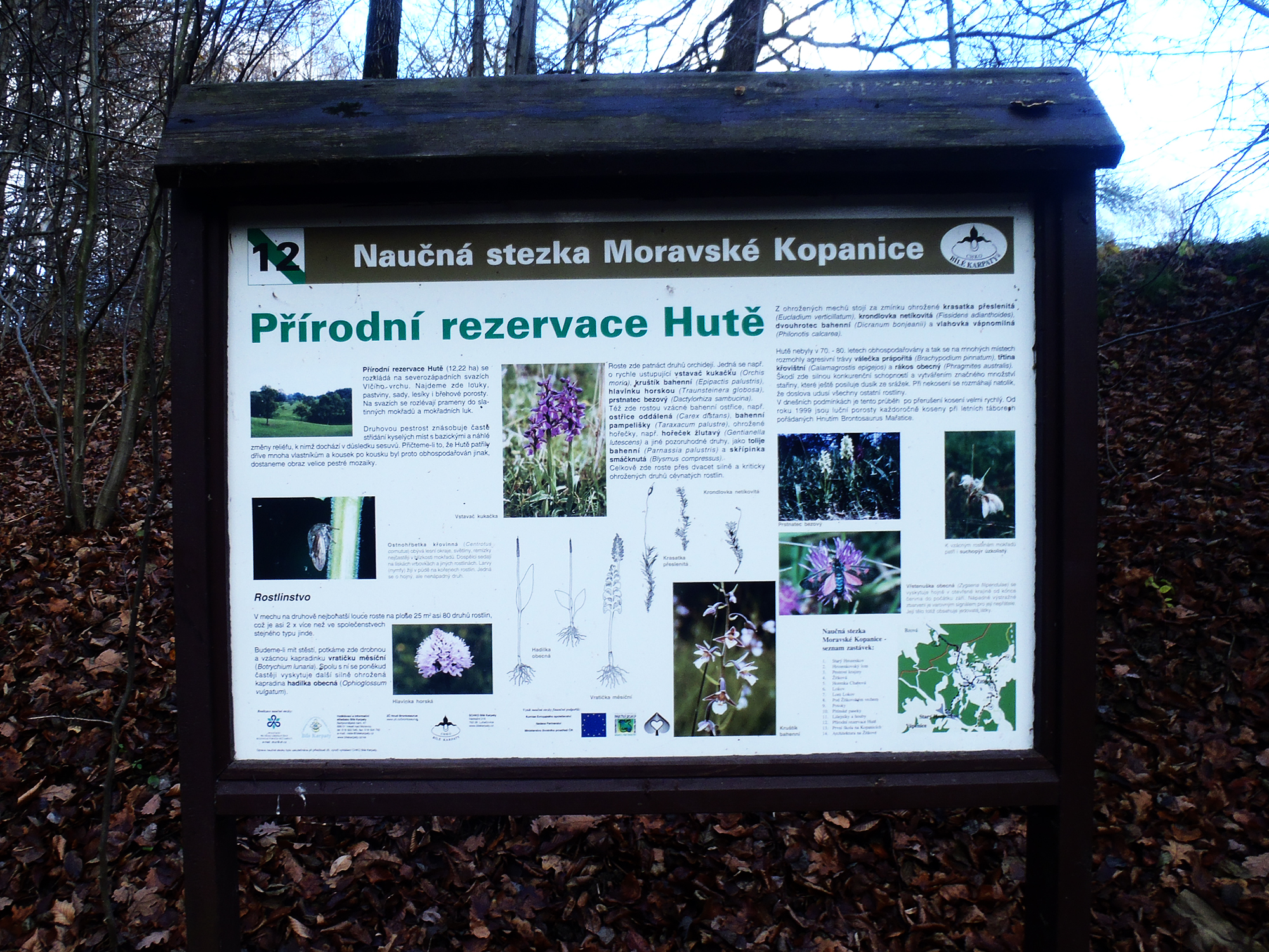 Nature reserve Hutě in Uherské Hradiště District, Czech Republic.